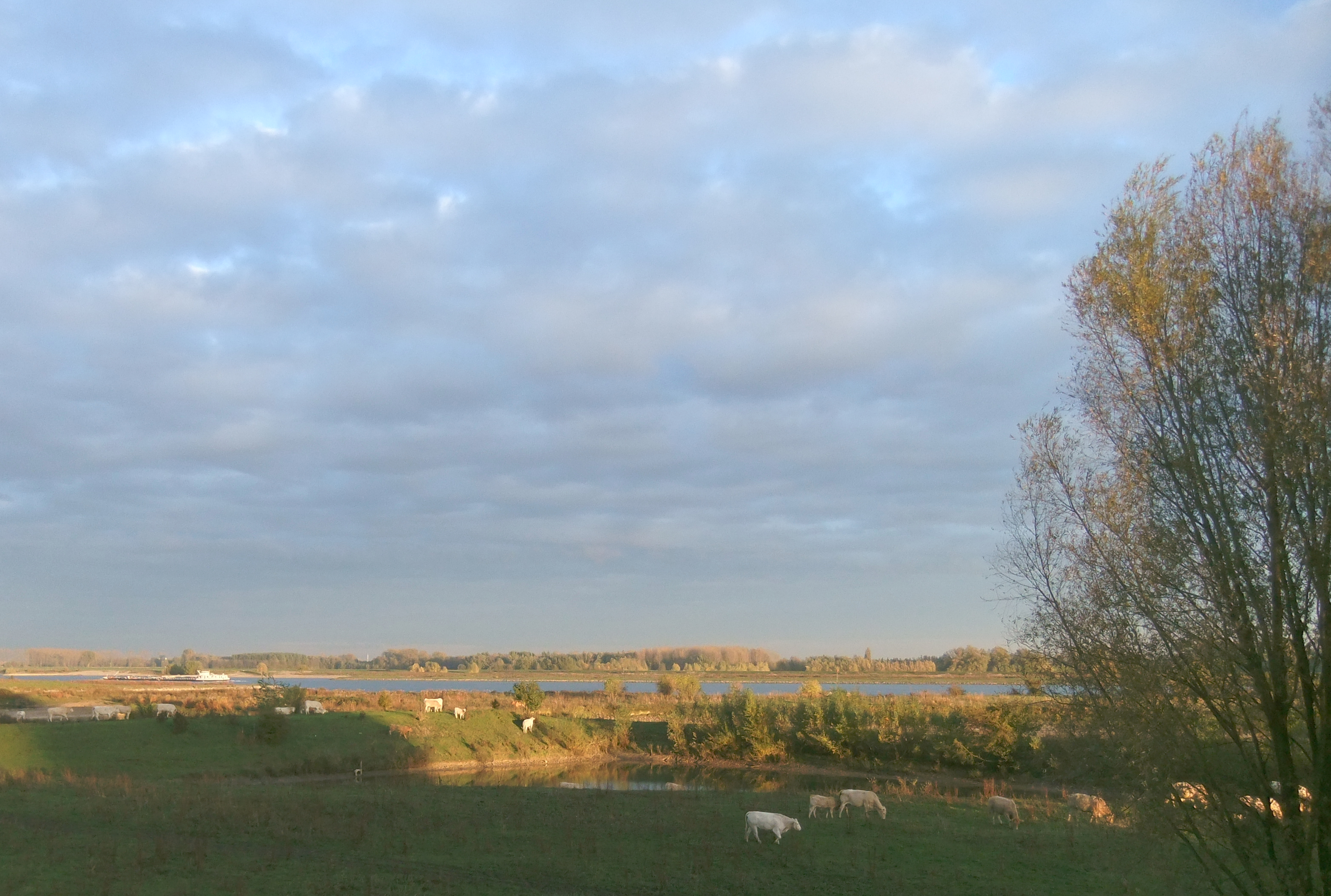 Wetland Passewaaij, Tiel, The Netherlands